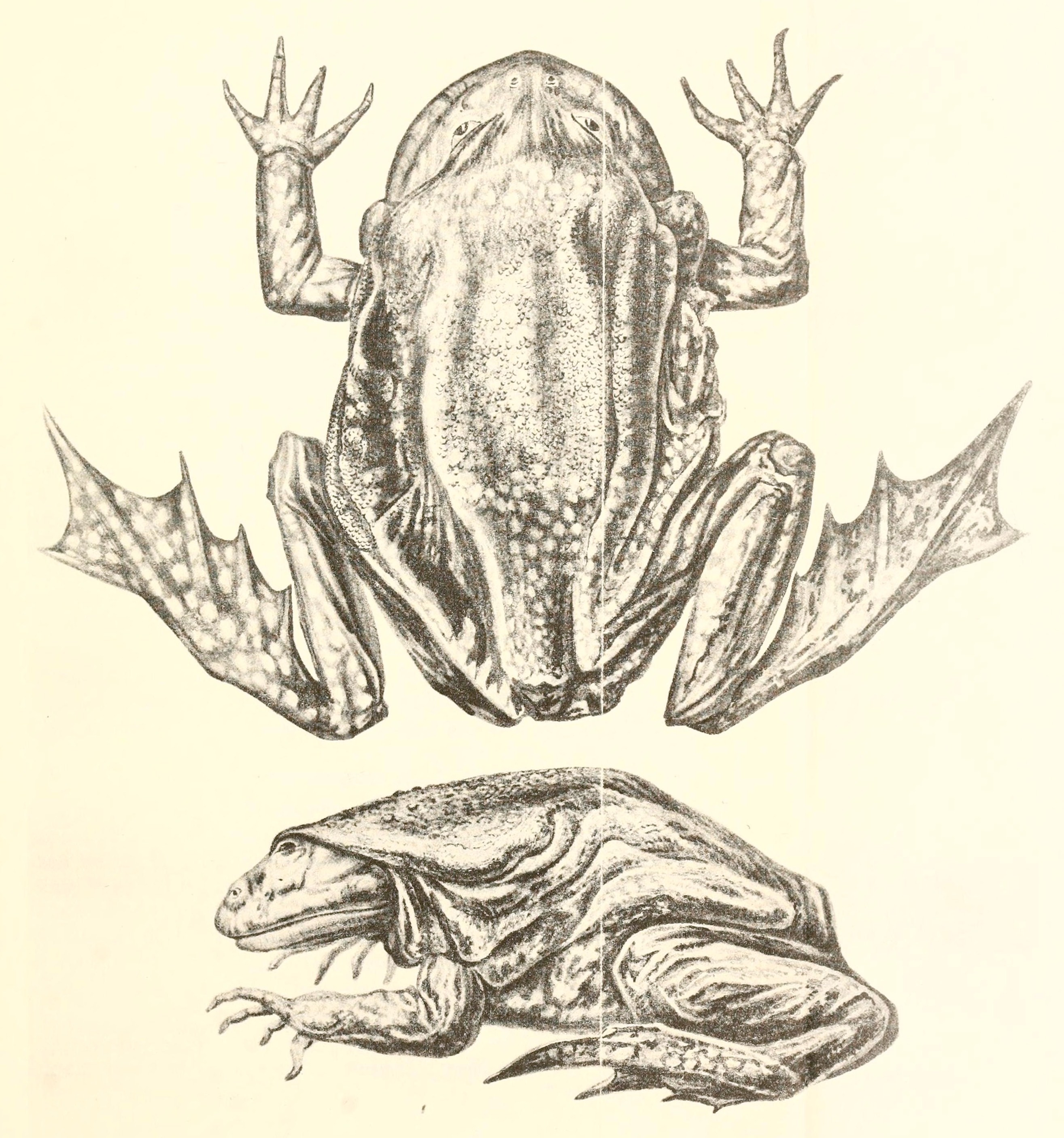 Cyclorhamphus culeus = Telmatobius culeus